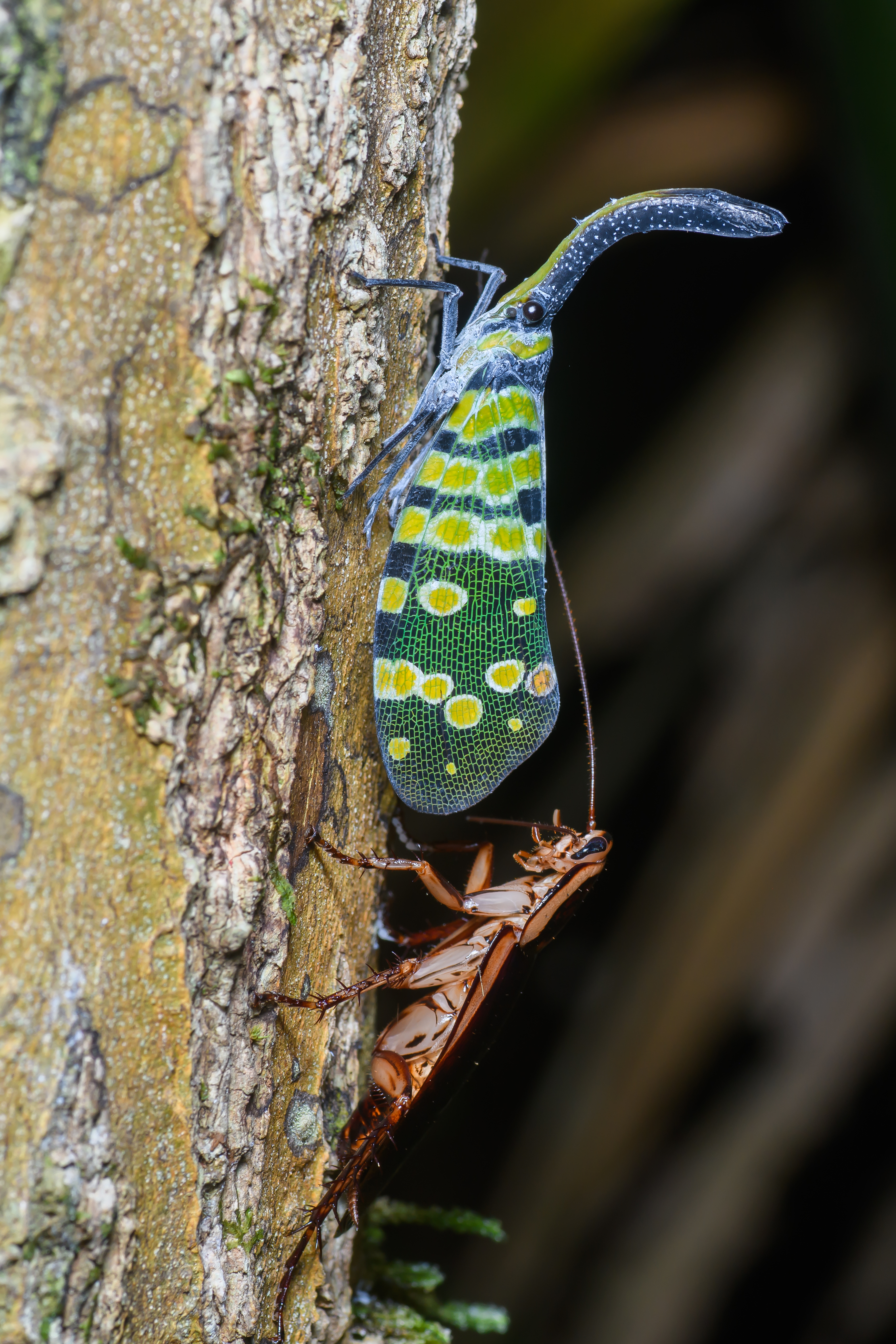 A cockroach licking honeydew from rear end of a planthopper (Pyrops connectens). Khao Sok National Park, Thailand.